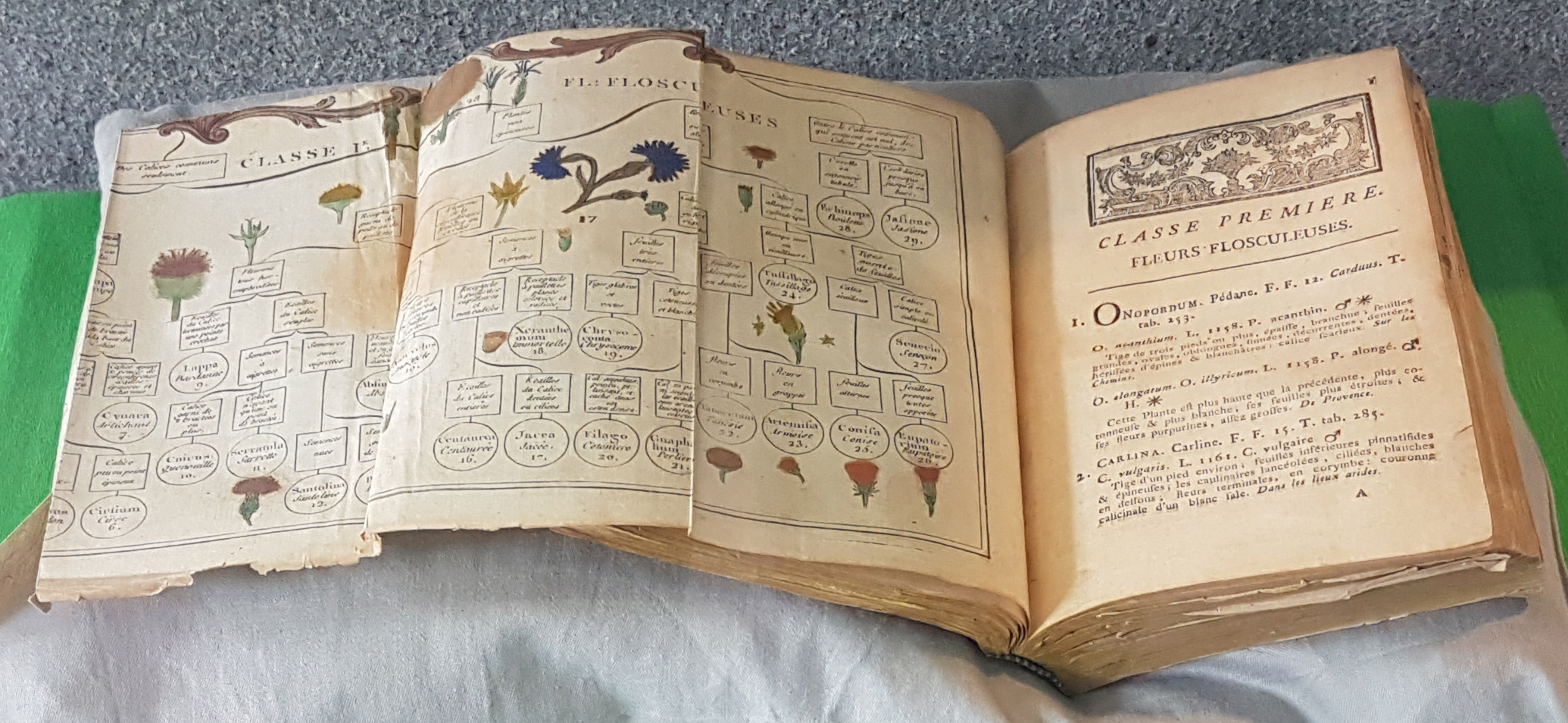 François-Joseph Lestiboudois: Botanographie belgique, etc. (Lille, 1781). Photographed at an exhibition on books about herbs and herbal medicine in the inner city branch of the university library of Maastricht University at Nieuwenhofstraat/Grote Looiersstraat, Maastricht, the Netherlands.